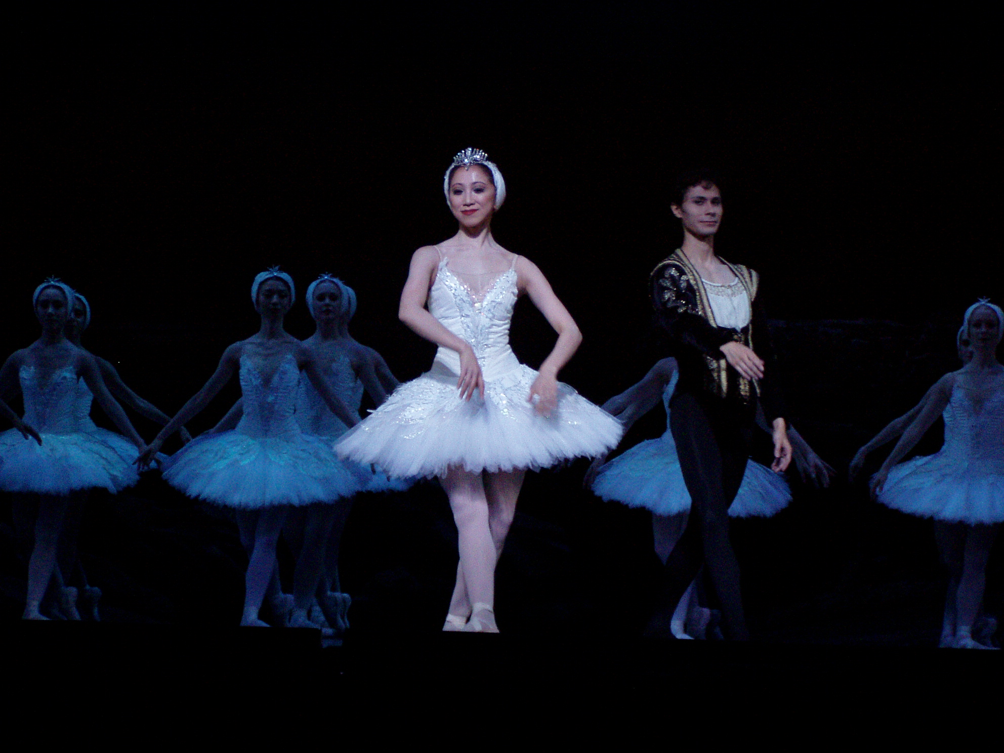 Scillystuff, Swan Lake